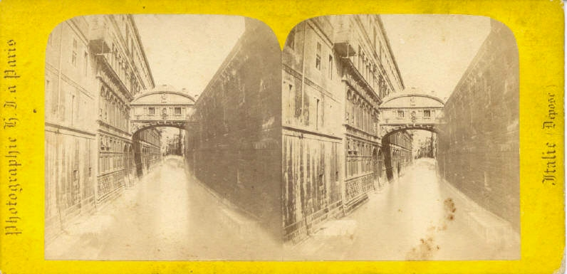 H. J. (Hippolyte Jouvin, 1825-ca. 1887) - n. 631 - Venise, Pont des soupirs (Venice, Bridge of Sighs. Stereo card.